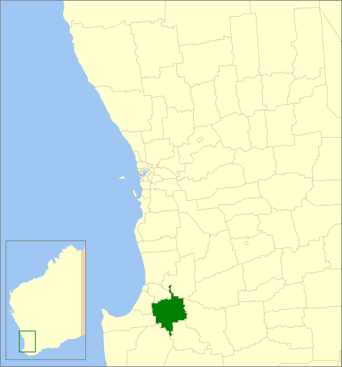 Description=Location of the Local Government Area in Western Australia